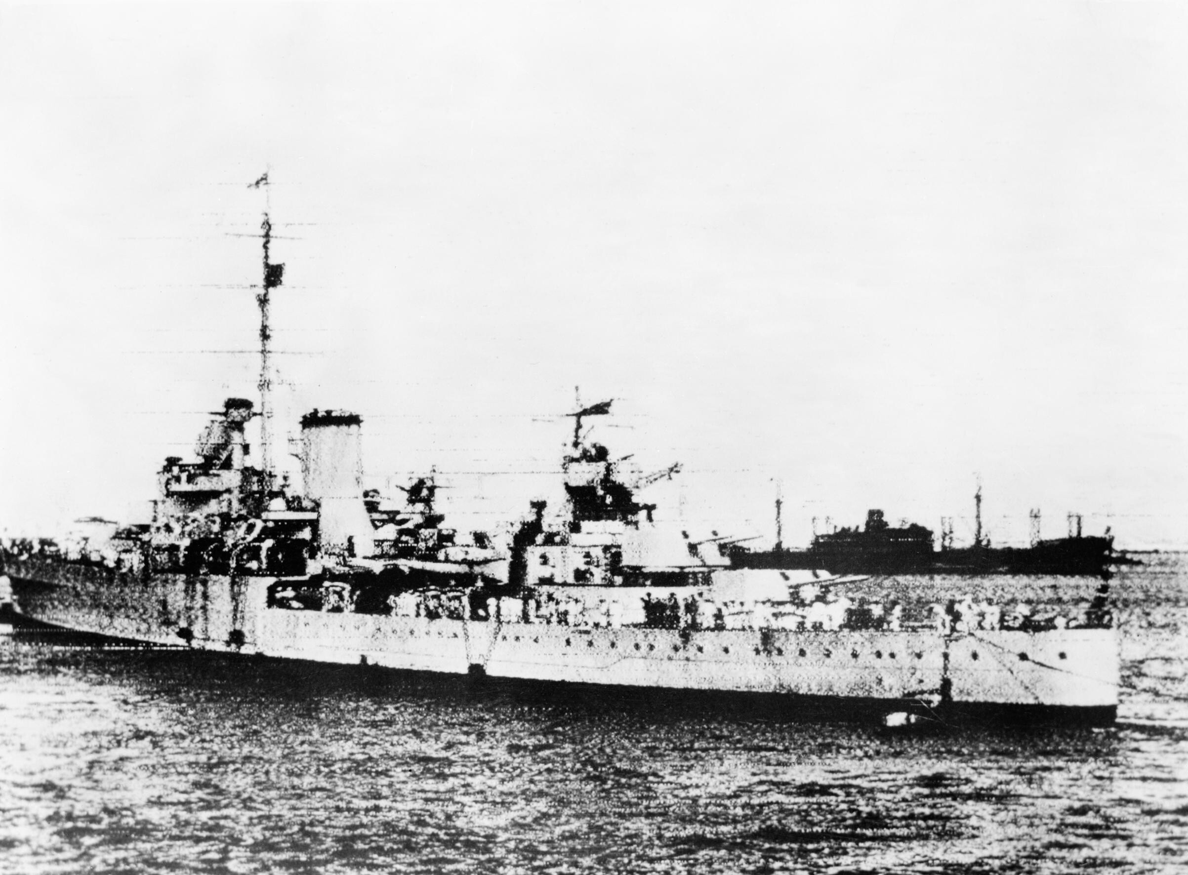 Rear Admiral Sir Henry Harwood Received in Montevideo. 3 January 1940, Montevideo, Uruguay. Admiral Harwood Arrived in the Cruiser HMS Ajax After the Battle of the River Plate and the Scuttling of the German Battleship Admirale Graf Spee. (radio Photograph?) The cruiser HMS AJAX at Montevideo. In the background is the TACOMA which acted as supply ship for the ADMIRAL GRAF SPEE, and which was interned.